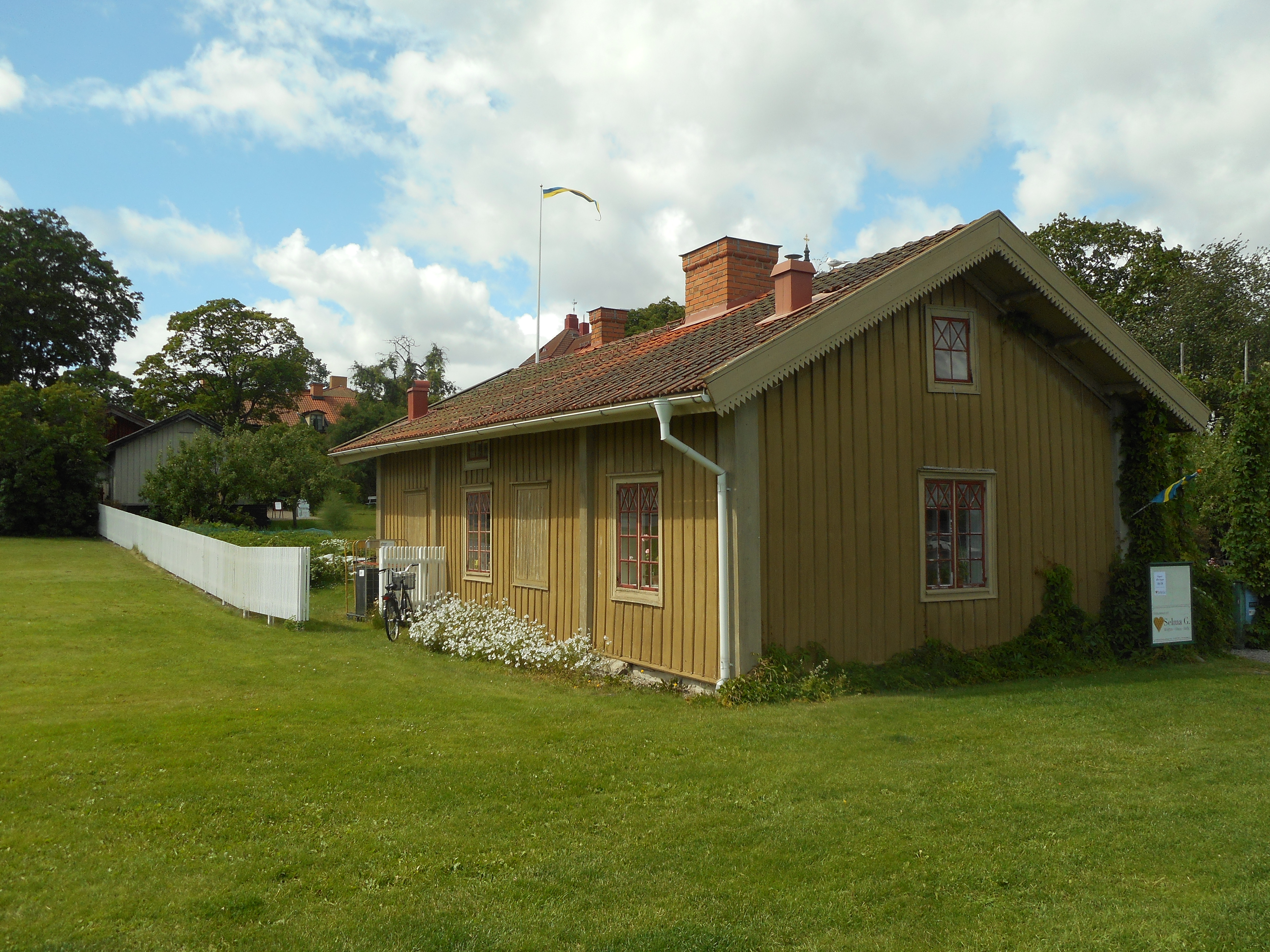 Buildings of the "Göthlinska gården" estate at Kungsgatan/Borgmästargatan in Nora, Nora Municipality